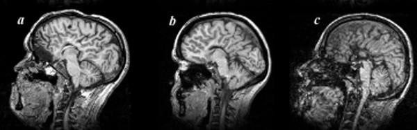 MRI images of patients in the sagittal plane. MRI image showing complete agenesis of the corpus callosum and the preserved anterior commissure of (A) patient M.G. and (B) patient S.G., as well as complete agenesis of both the corpus callosum and the anterior commissure of (C) patient S.Pe.